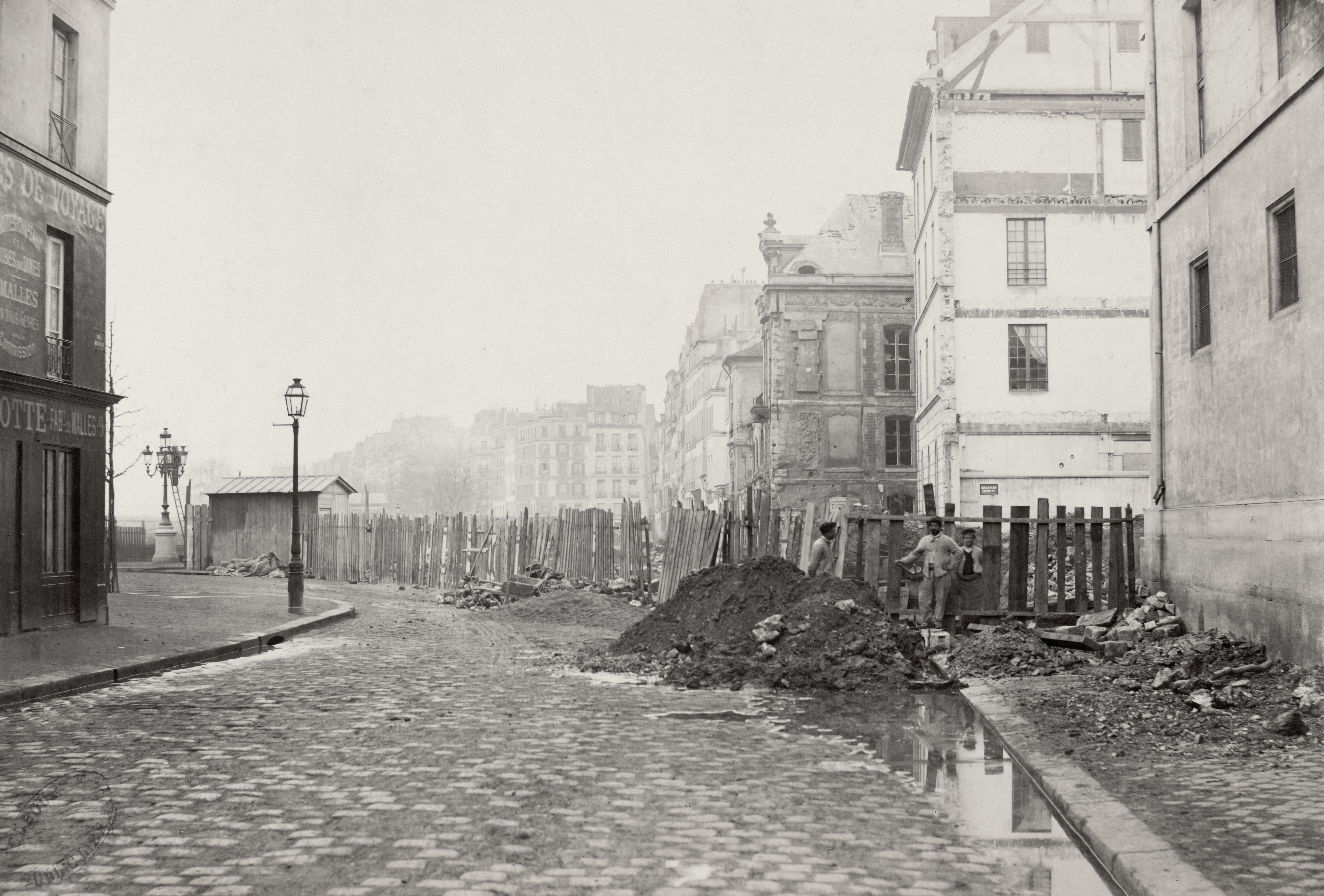 Looking along the beginning of Boulevard Henri IV, workmen standing in front of delapidated picket fence, builders rubble on edge of cobbled street, two and three storey buildings on paths, man on ladder working on street lamp in left background.